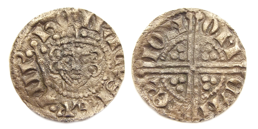 England, long cross penny of Henry III (1216-1272), Canterbury mint. Obverse: Crowned facing bust of Henry III with sceptre; legend: HENRICVS REX III. Reverse: Long voided cross with trefoil of pellets in each angle; legend of the moneyer and Canterbury mint: ION ON CAN TER. Engeland, sterling van Hendrik III (1216-1272) Voorzijde: Gekroonde buste van Hendrik III met scepter; omschrift: HENRICVS REX III. Keerzijde: Lang kruis met drie bolletjes in elk kwartier; omschrift met muntmeester van Canterbury: ION ON CAN TER.